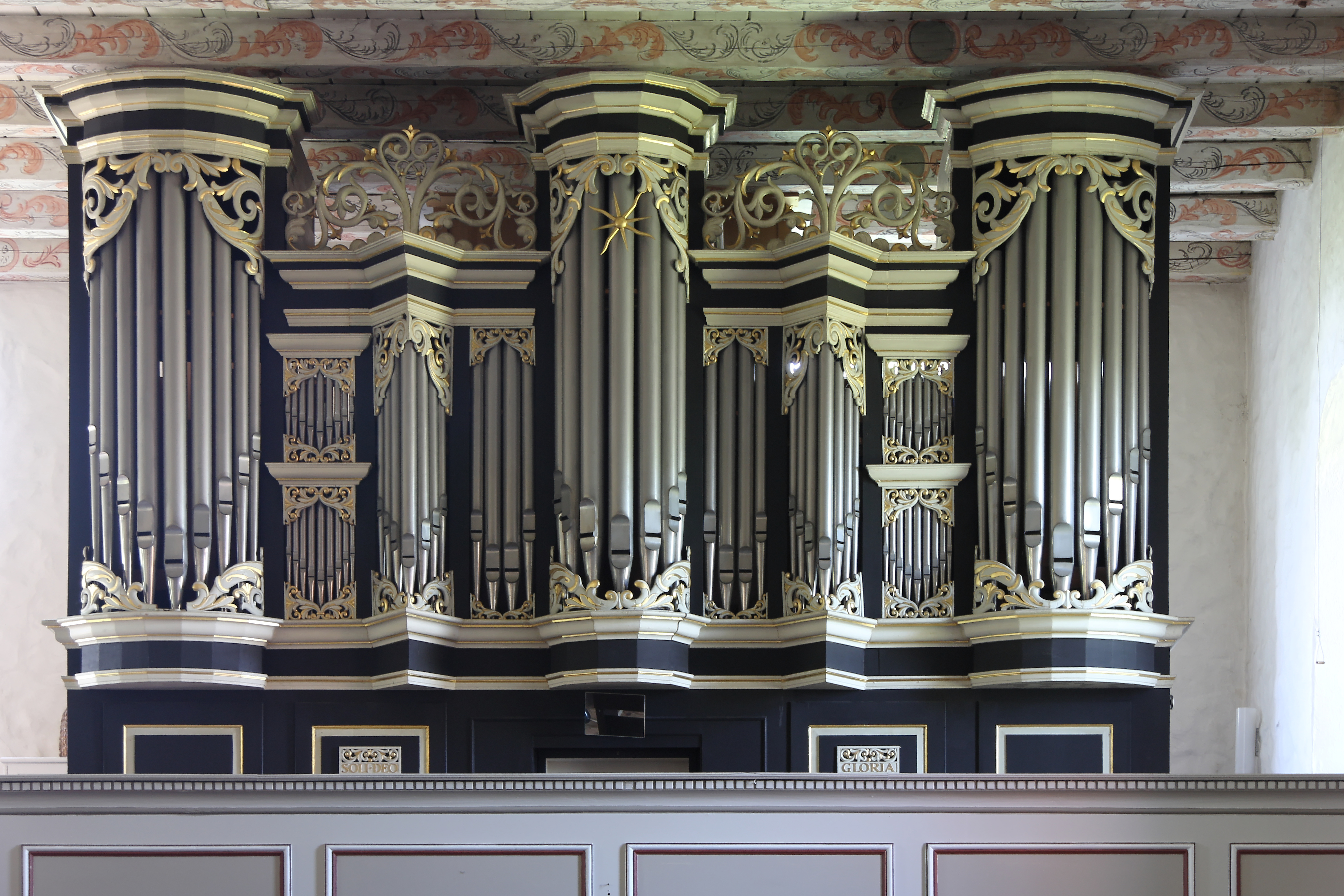 Hittfeld St. Mauritius, interior, pipe organ